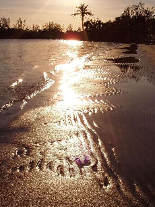 The beach in Hobe Sound National Wildlife Refuge, Florida at low tide before dawn